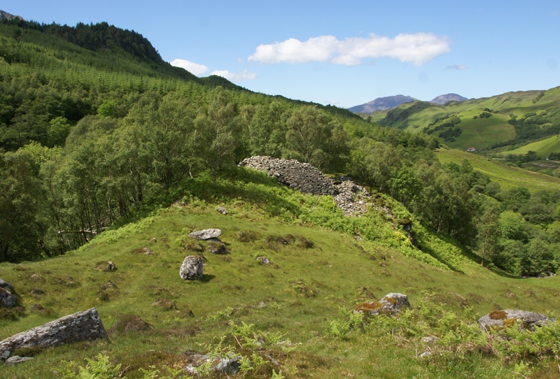 Dun Grugaig, Lochalsh, Highland, Scotland - from the south